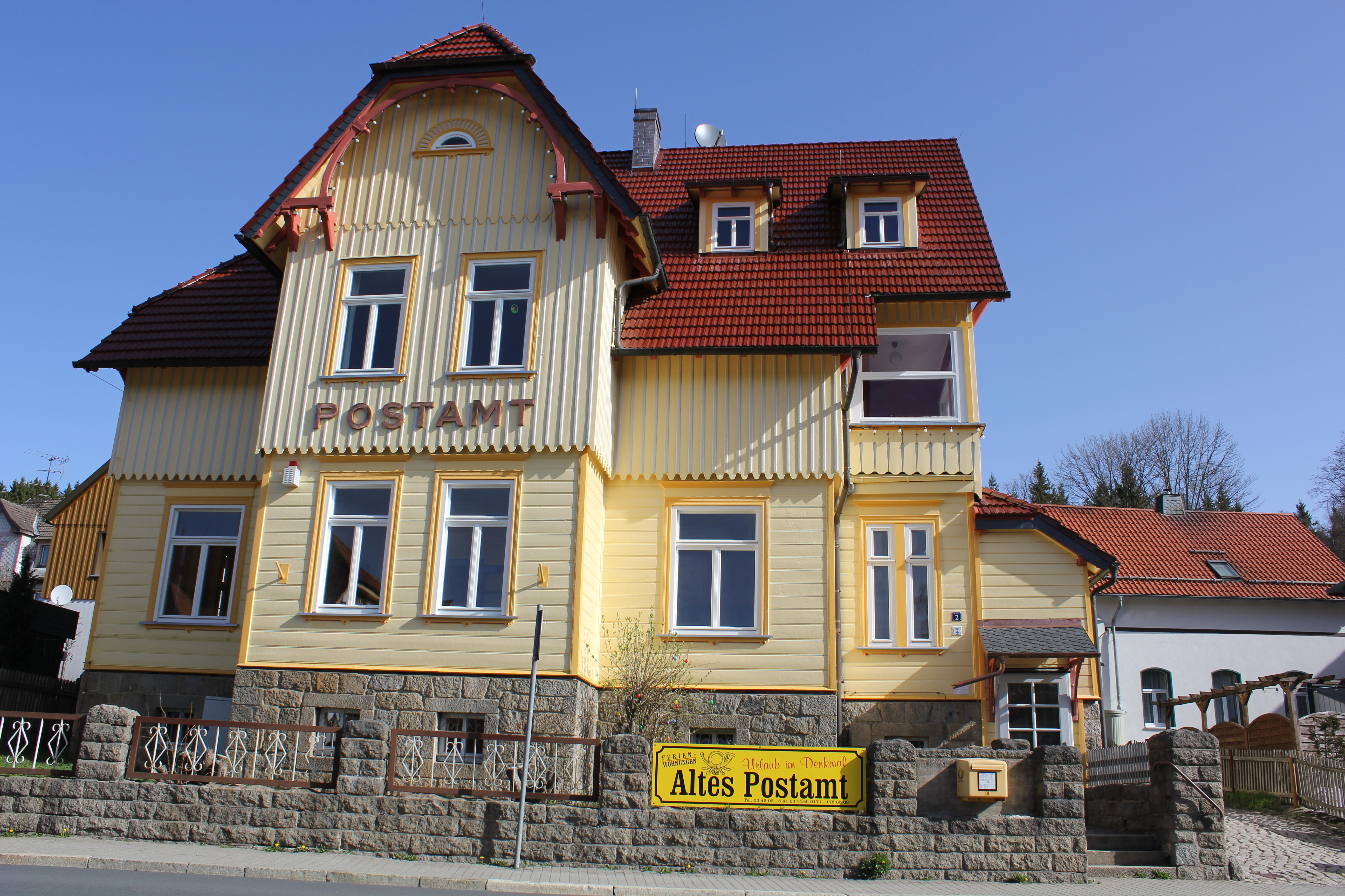 The building „Alte Post in Schierke)